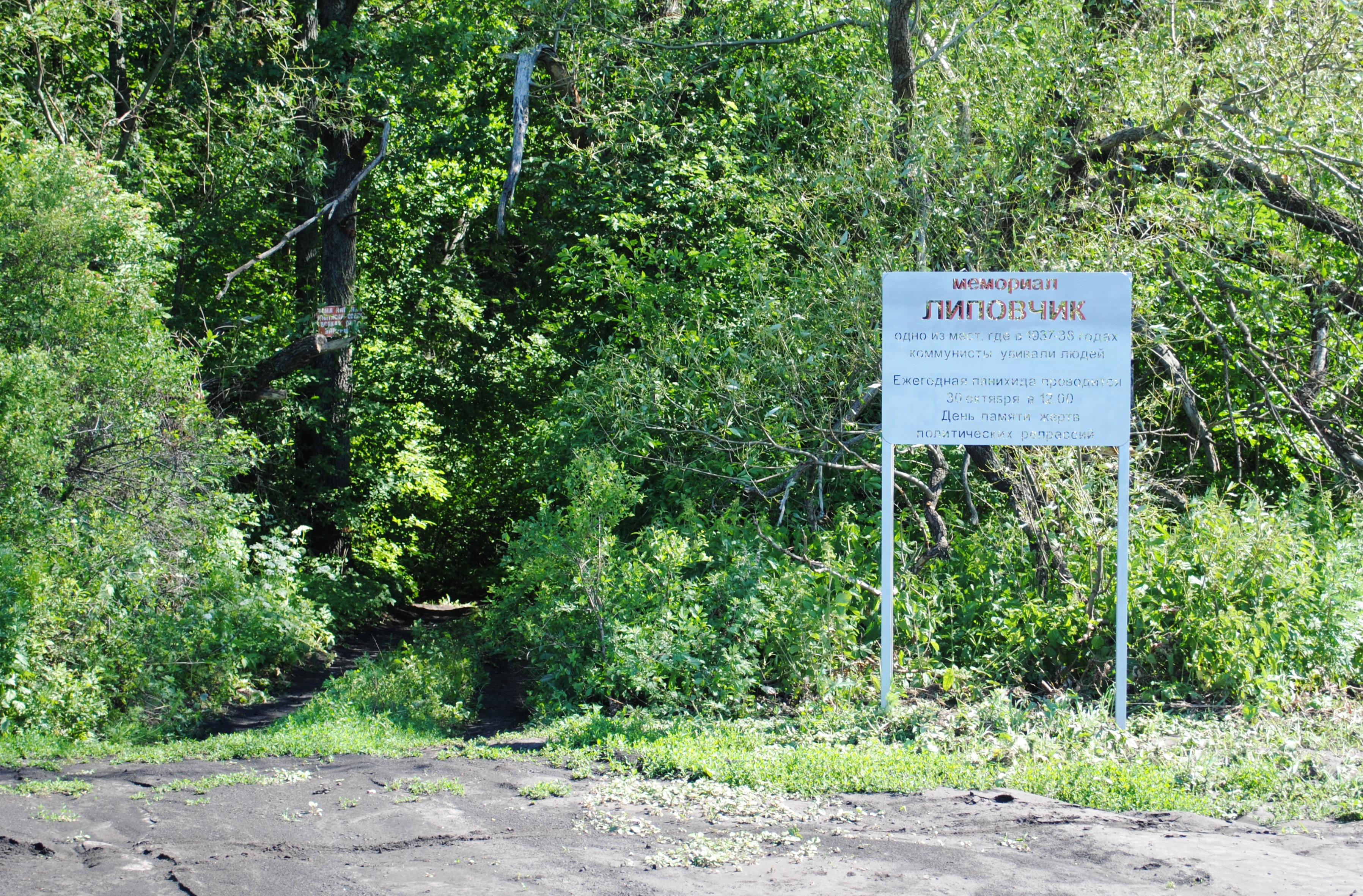 Lipovchik